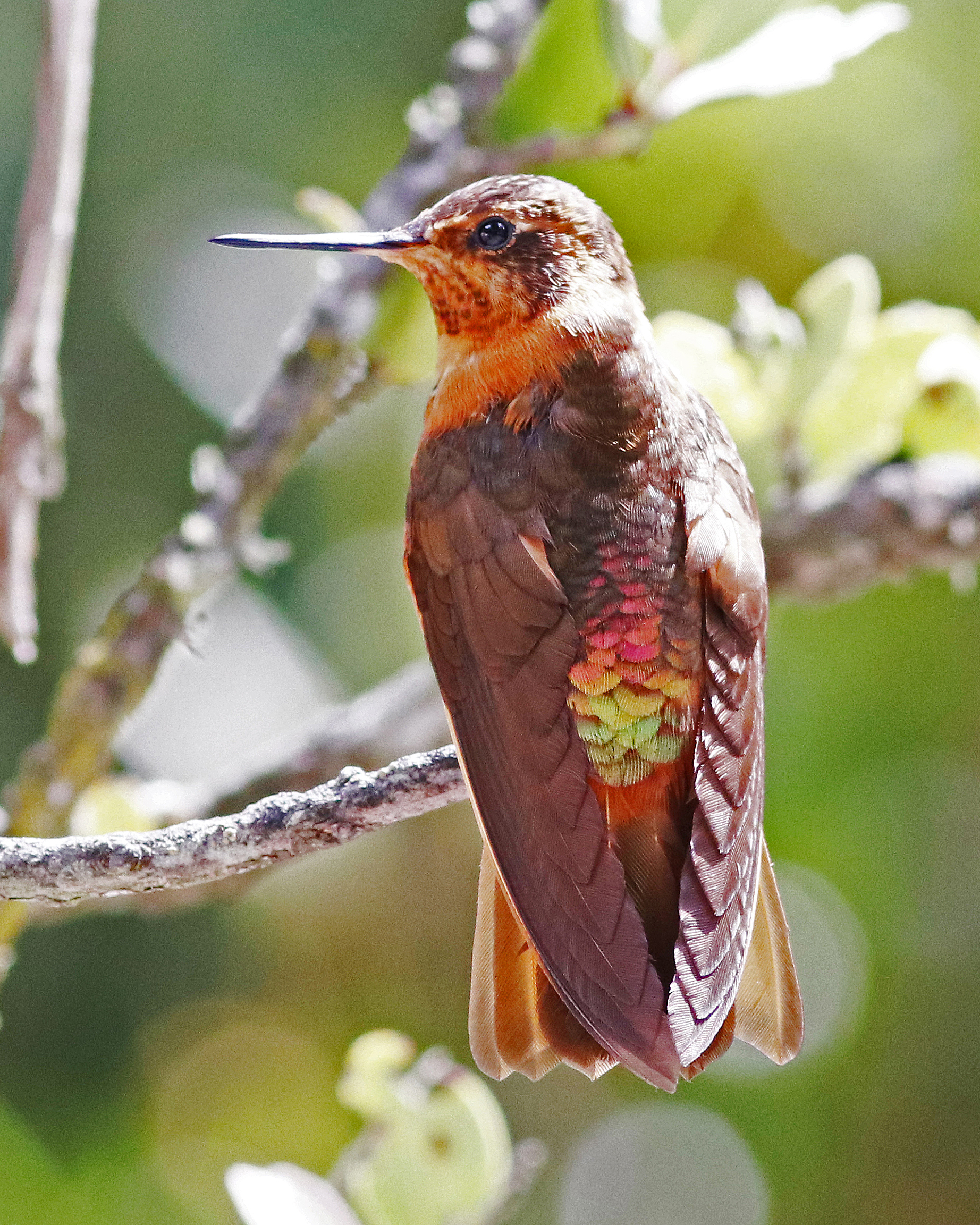 Shining Sunbeam resting on a branch at San Jorge Eco-lodge, Quito, Ecuador